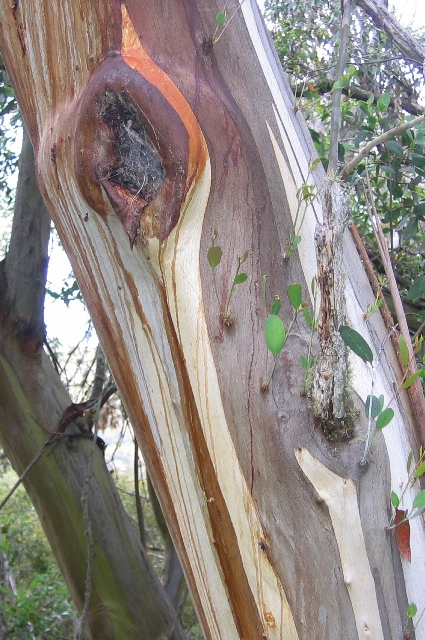 Close-up of Snow Gum trunk along Meadows Nature Track in Kosciuszko National Park